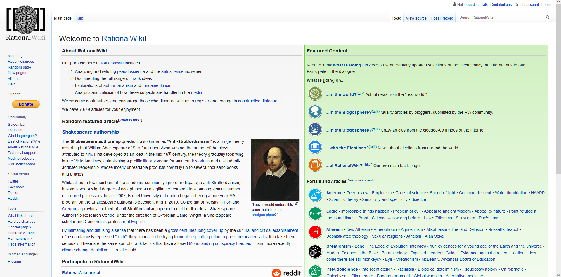 A screen shot of the entirety of RationalWiki's Main Page.